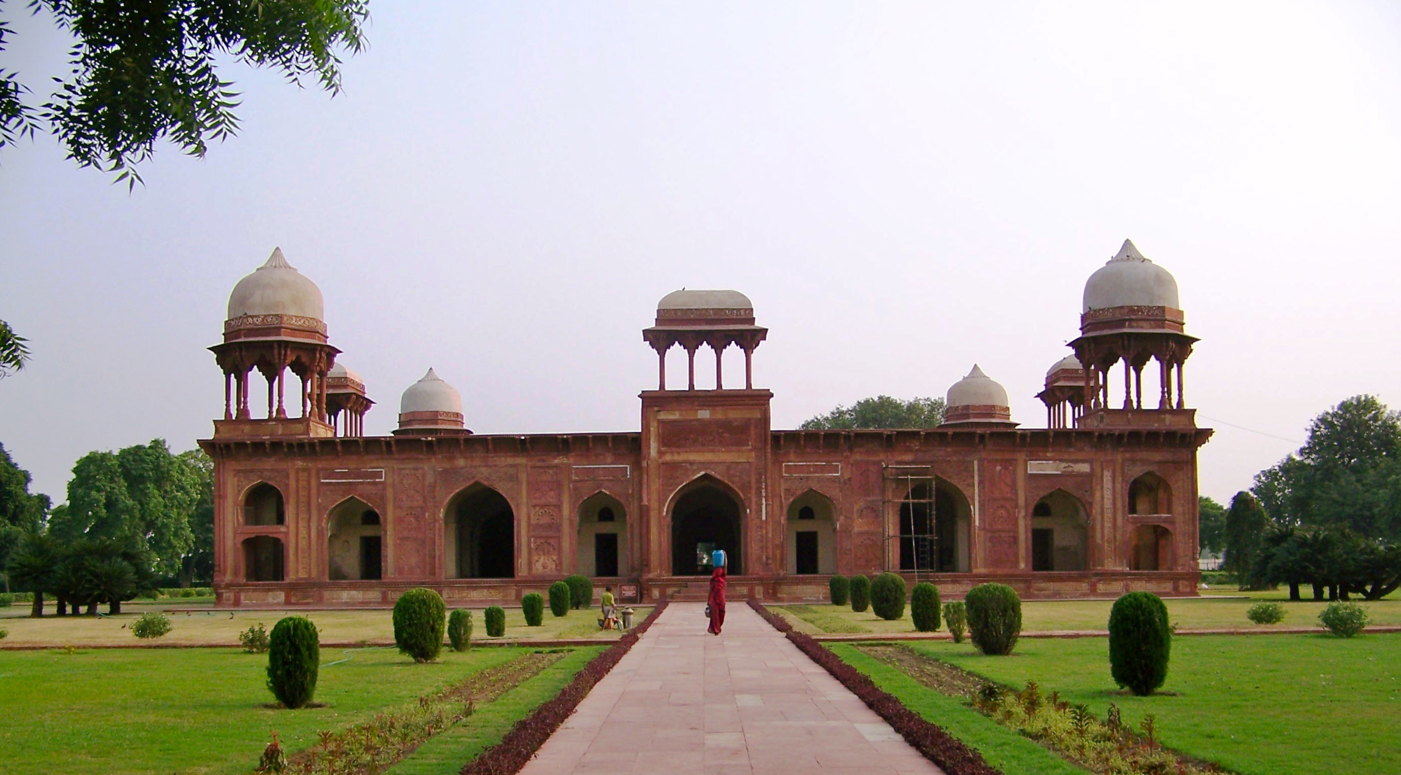 ASI Monument number IN-UP-A66